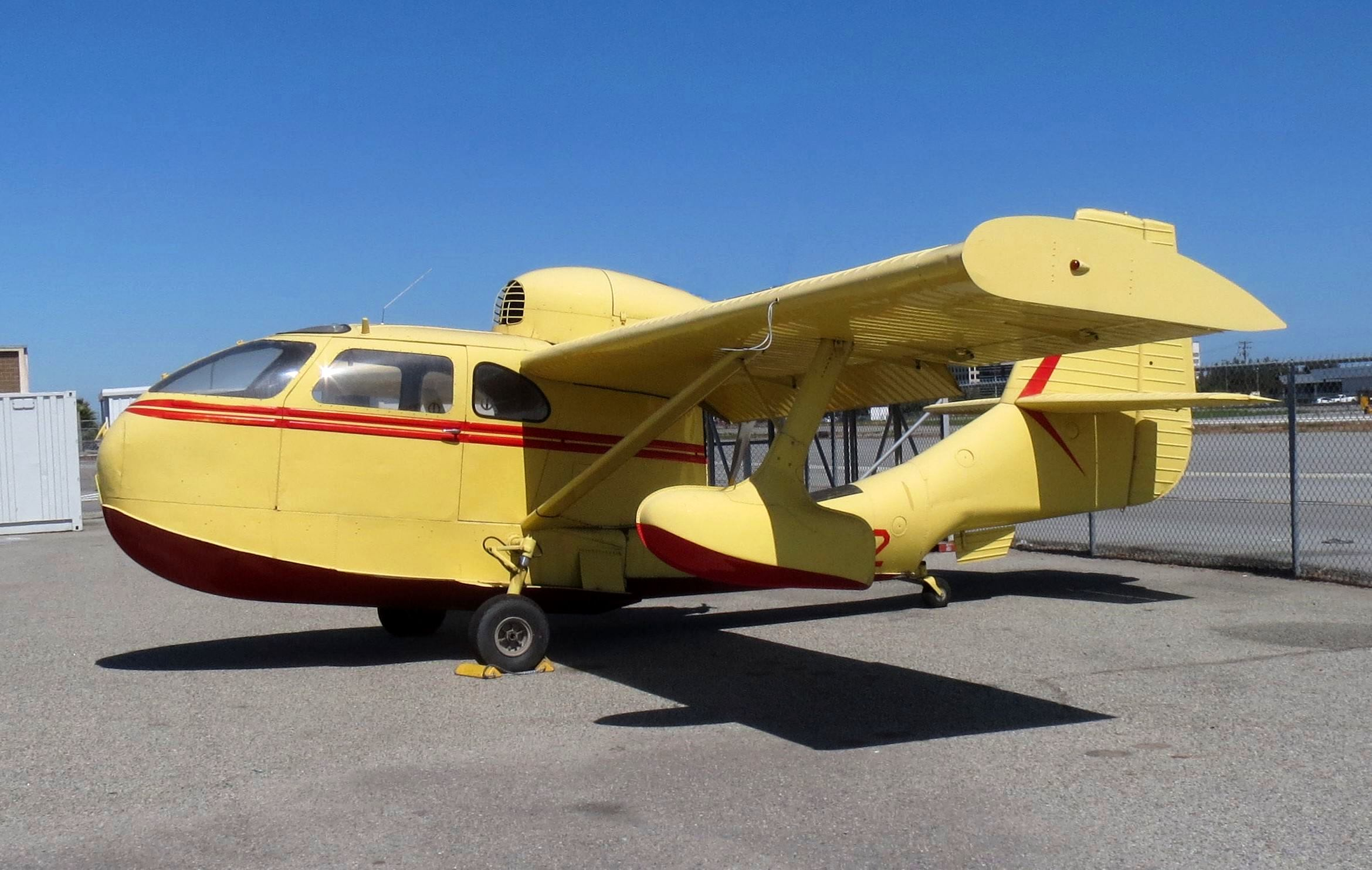 1946 Republic RC-3 Seabee S/N 33 (N87482) at the Hiller Aviation Museum, San Carlos, California (August 2014)